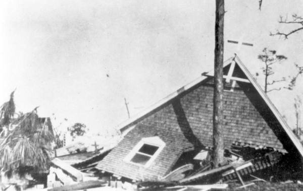 St. Andrew's Episcopal Church in Lake Worth, Florida, after the 1928 hurricane